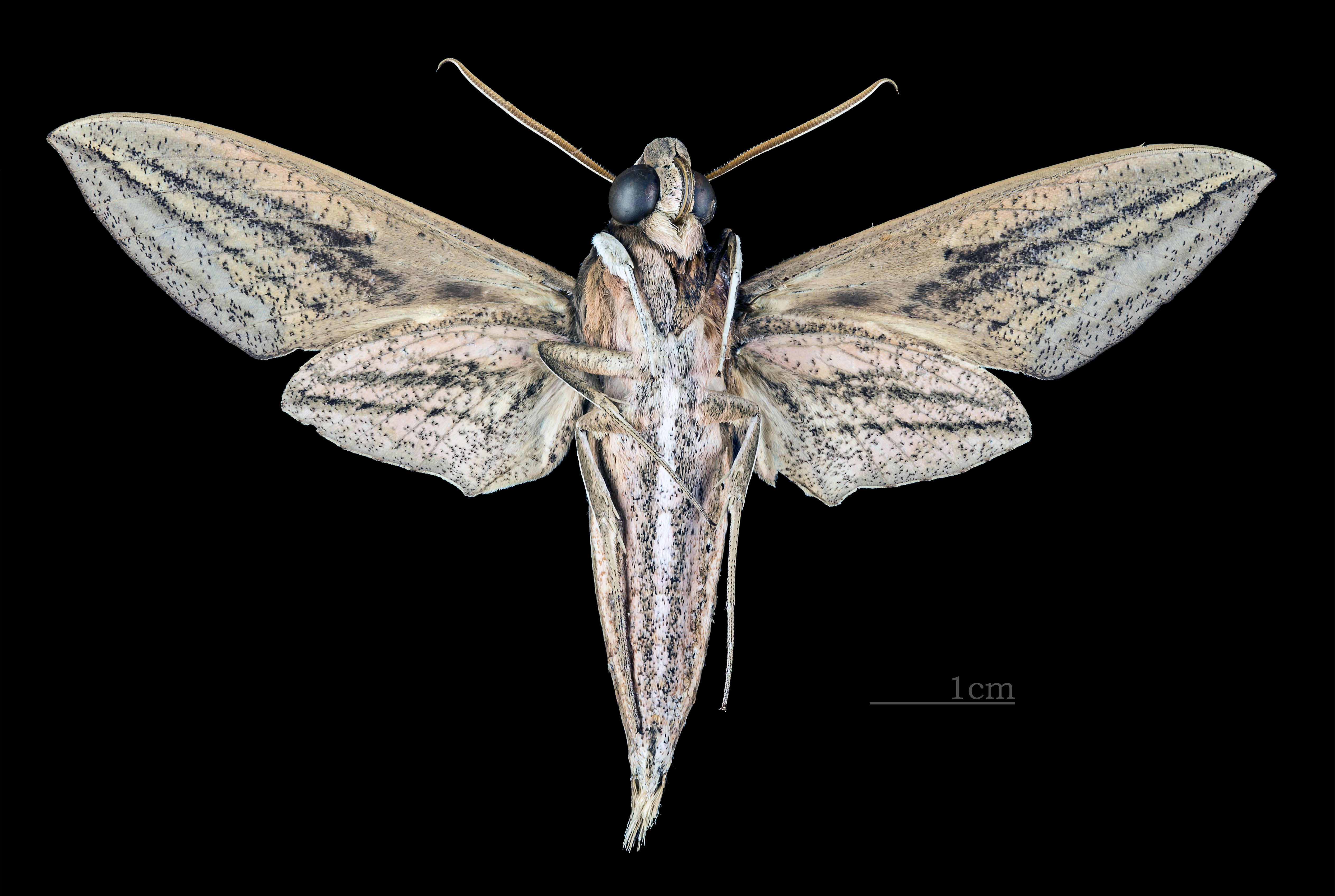 Theretra polistratus - △ Ventral side Collection of the Mathematician Laurent Schwartz